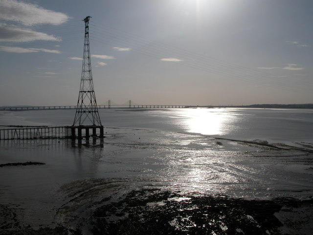 The Severn Estuary showing the Severn Powerline crossing pylon and the second Severn crossing in the background